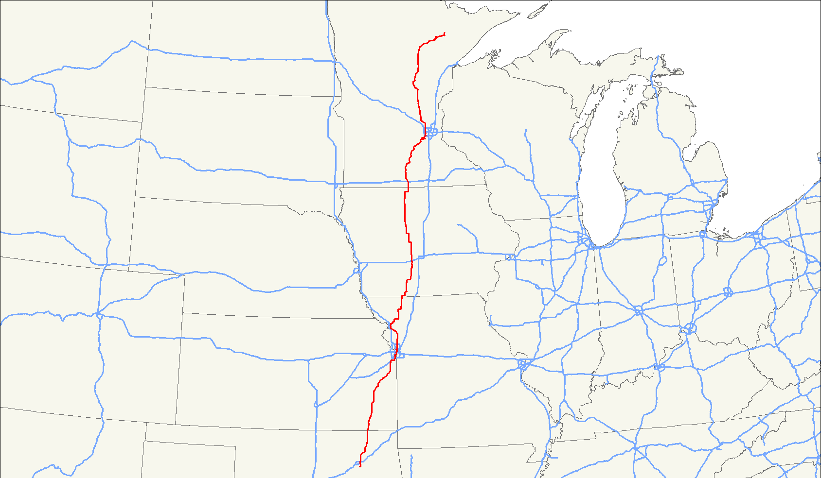 Map of U.S. Route 169.